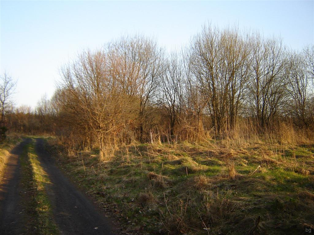 View of the former village in the municipality Tychowo Kościanka.